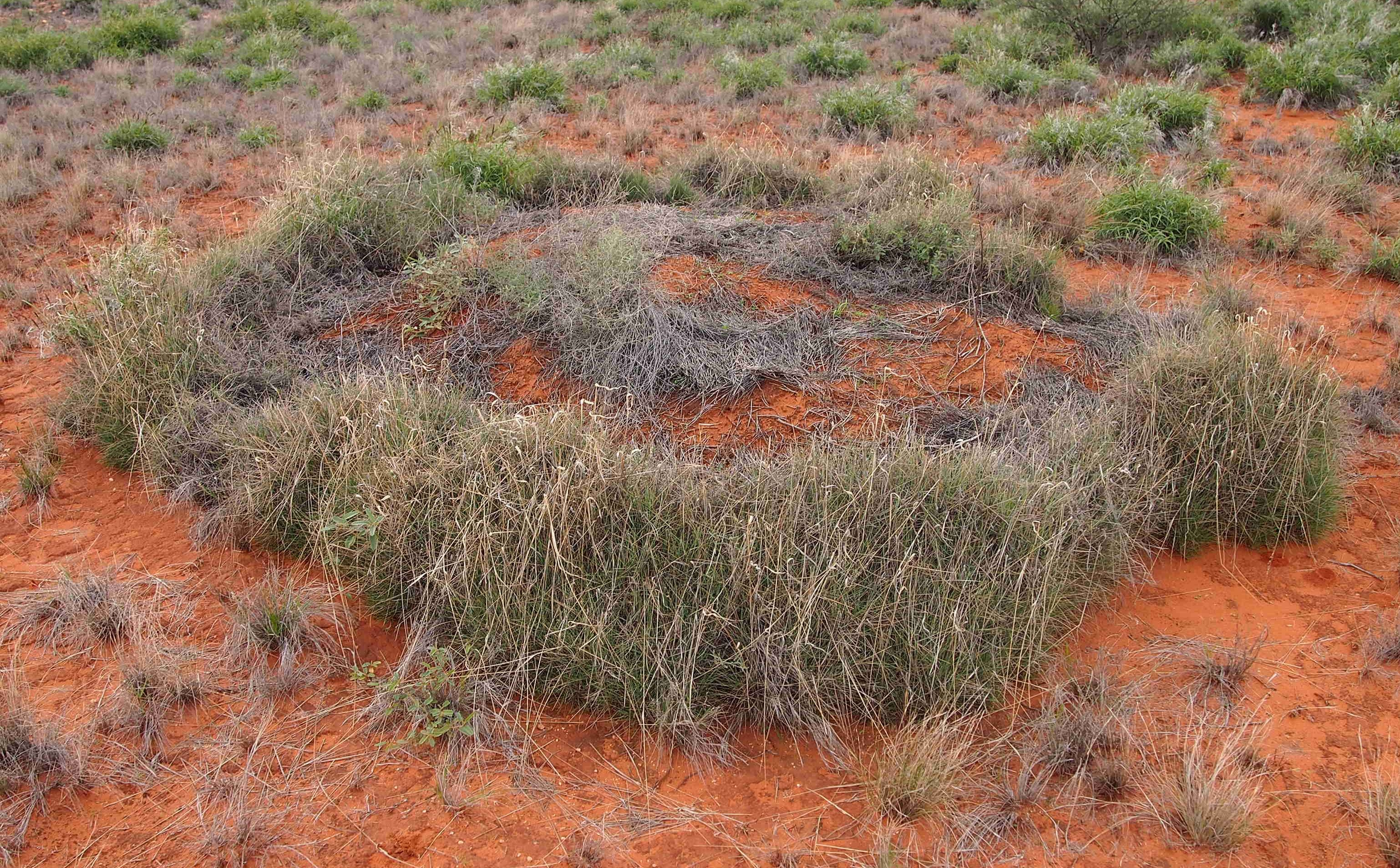 Ring of Triodia basedowii